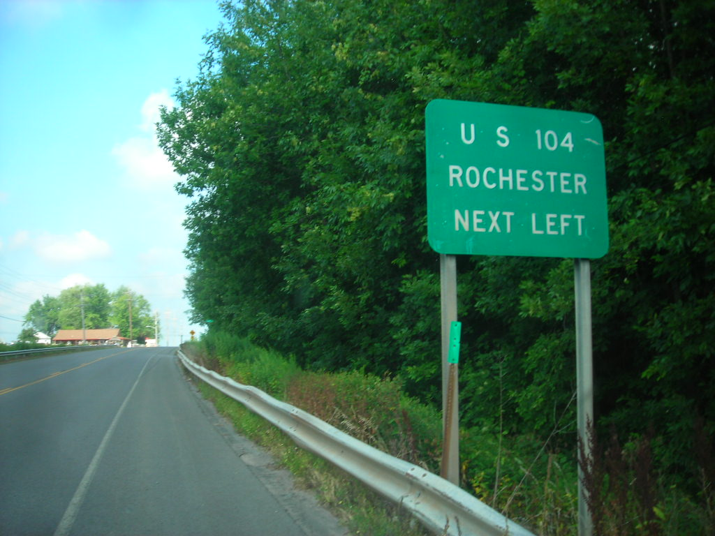 An old sign for U.S. Route 104 on Ridge Road westbound in Huron, New York, just east of Lake Bluff Road. The sign is a remnant of US 104's temporary routing during the 1960s and 1970s, when the US 104 super two ended at Lake Bluff Road (New York State Route 414) and US 104 used a section of Lake Bluff Road to reach its original alignment on Ridge Road and continue eastward toward Wolcott.